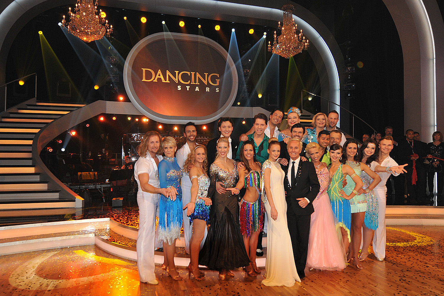 ORF Dancing Stars 2014